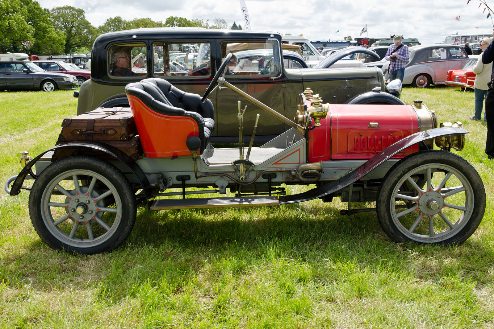 Heskin Hall Steam Fair 02/06/2013